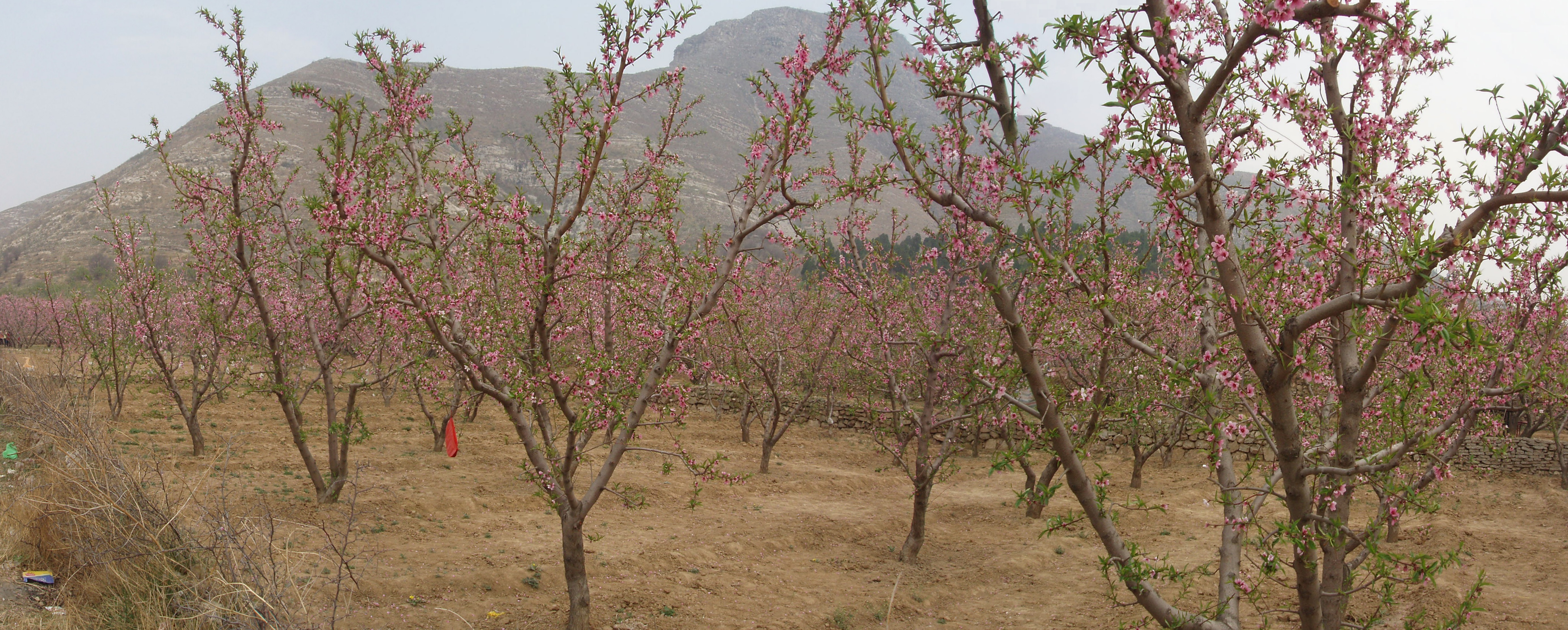 The peach flowers in Shunping County, Hebei, China.